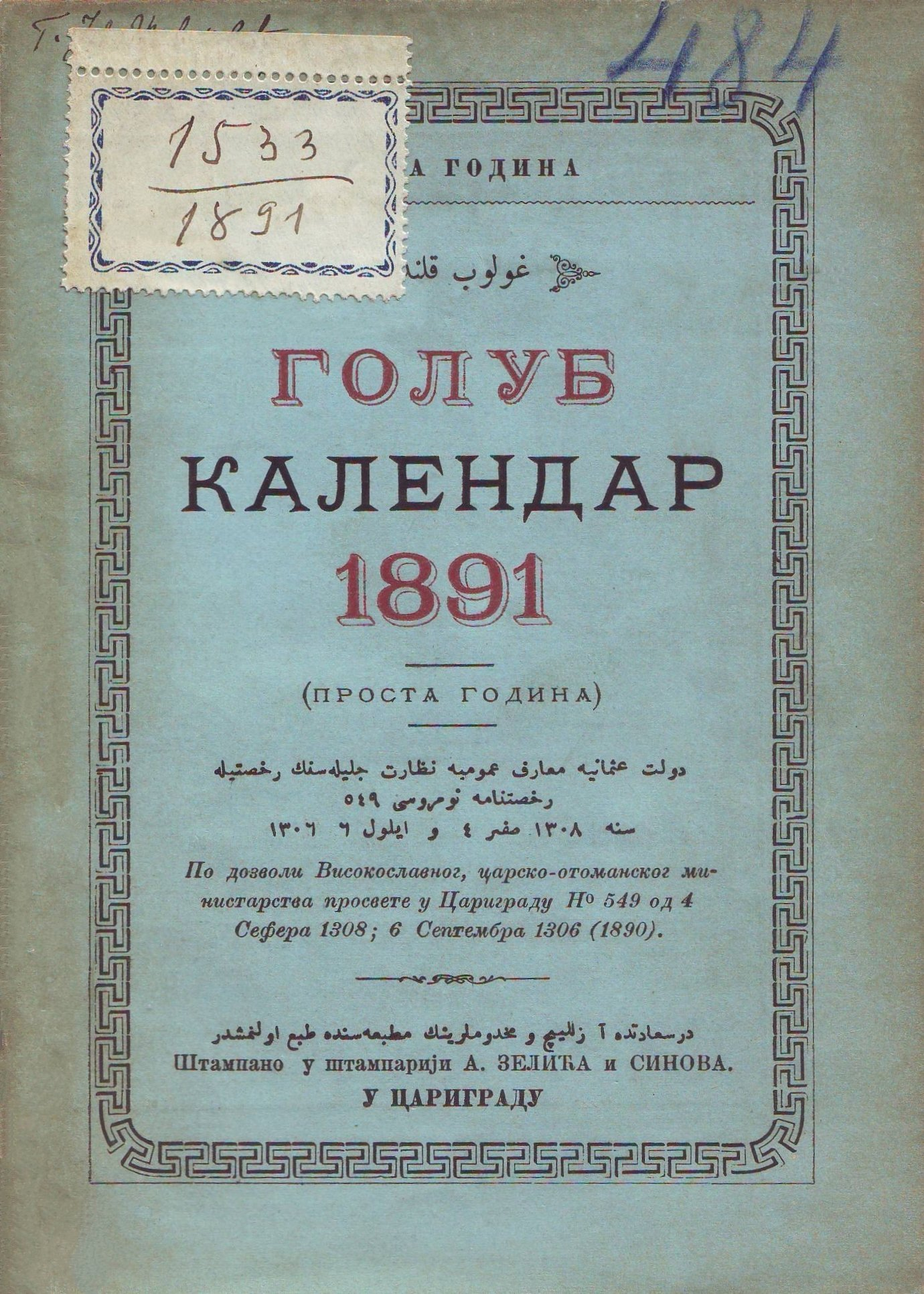 Cover of the 1891 edition of the calendar Golub (Pigeon). Srpski (latinica): Naslovna strana izdanja kalendara Golub za 1891. godinu.